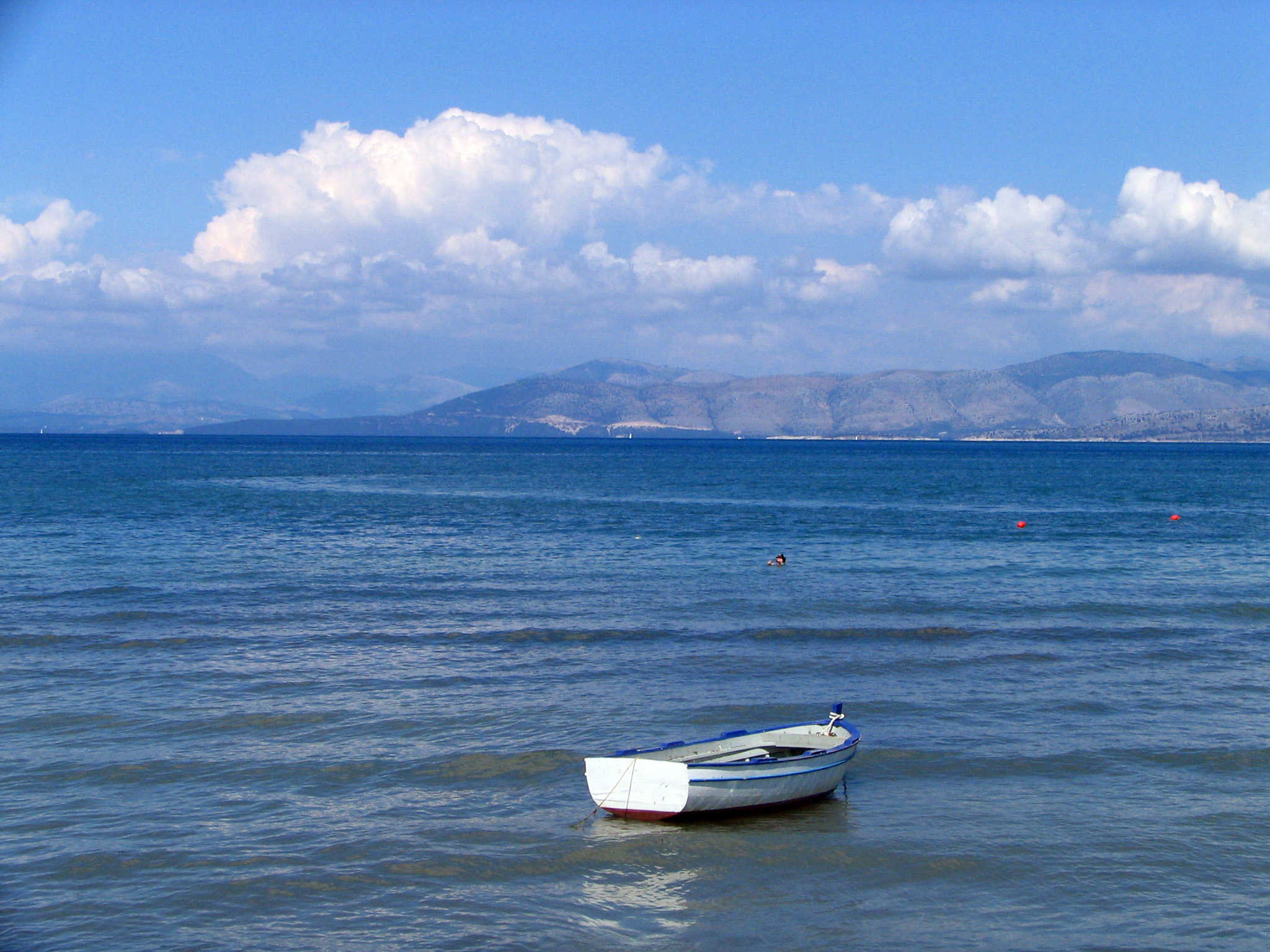 Mainland Greece and Albania (far left) can be seen from Corfu